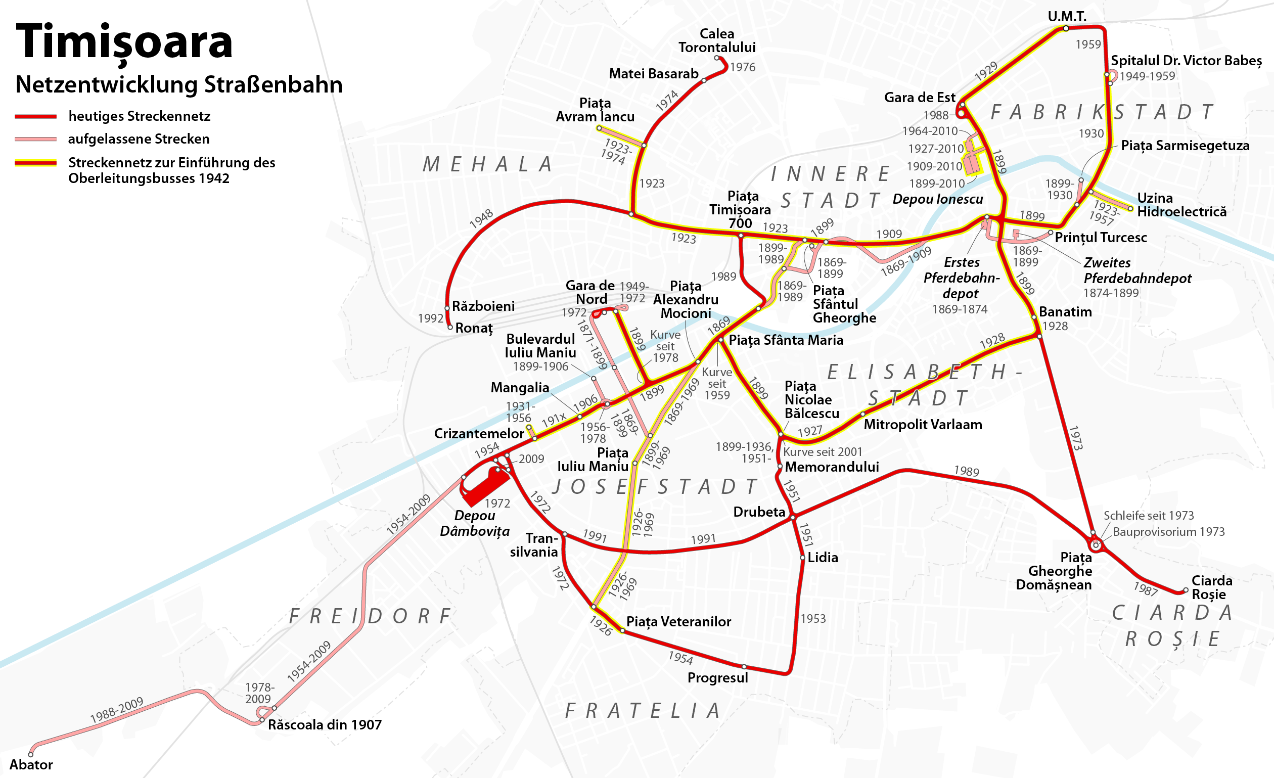 Map of network development of the Timișoara tramway